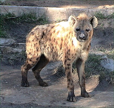 A hyena